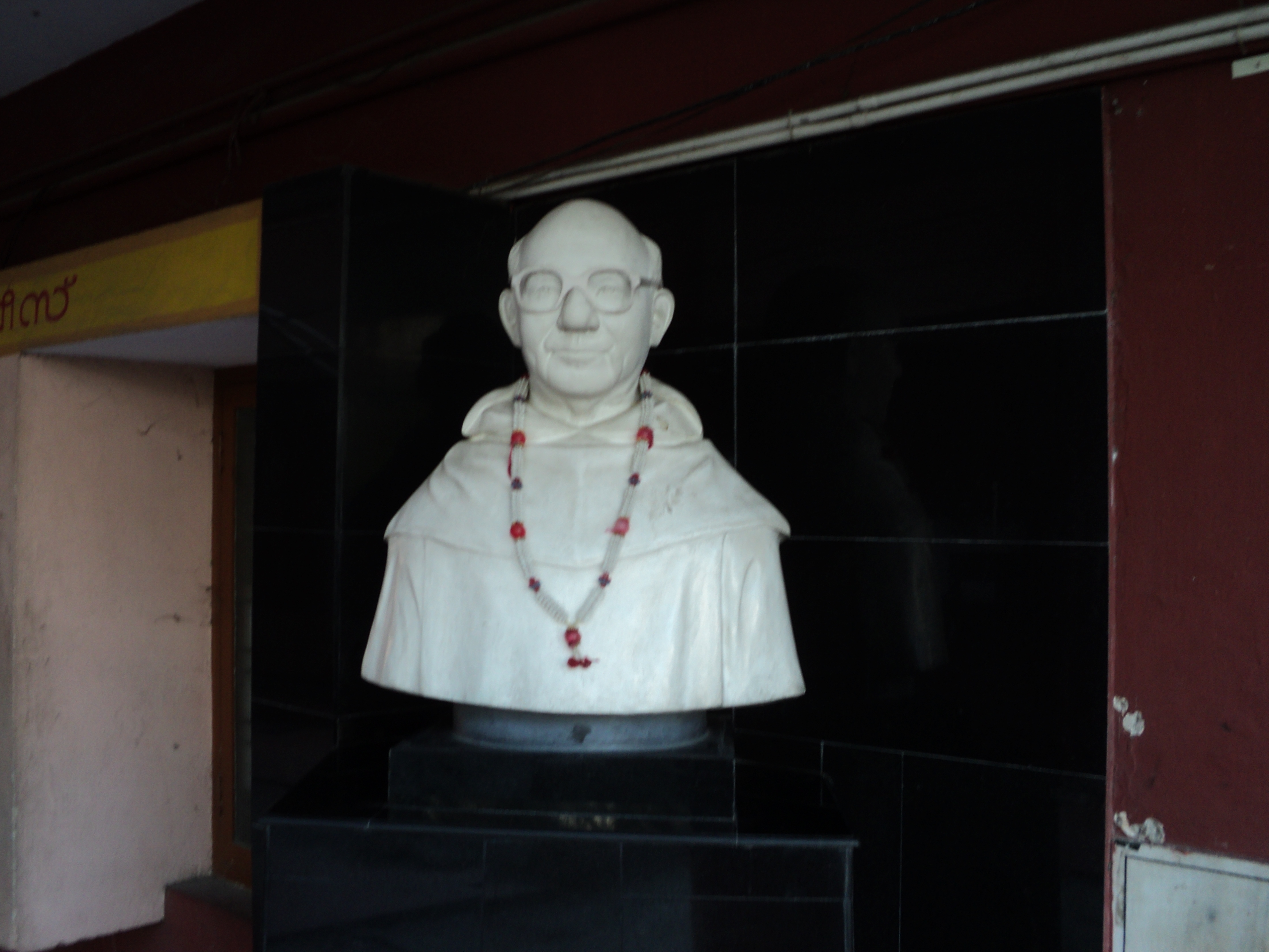 Statue of Father Abel infront of Kochin Kalabhavan.